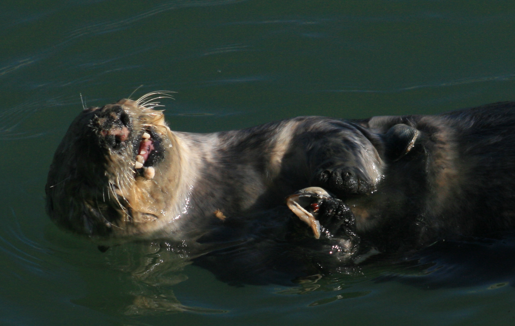 Sea Otter at Moss Landing.Sea otters usually bring up few shells, and while they eat one, they keep the rest on their tummy.